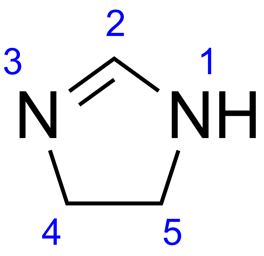 chemical structure of imidazoline